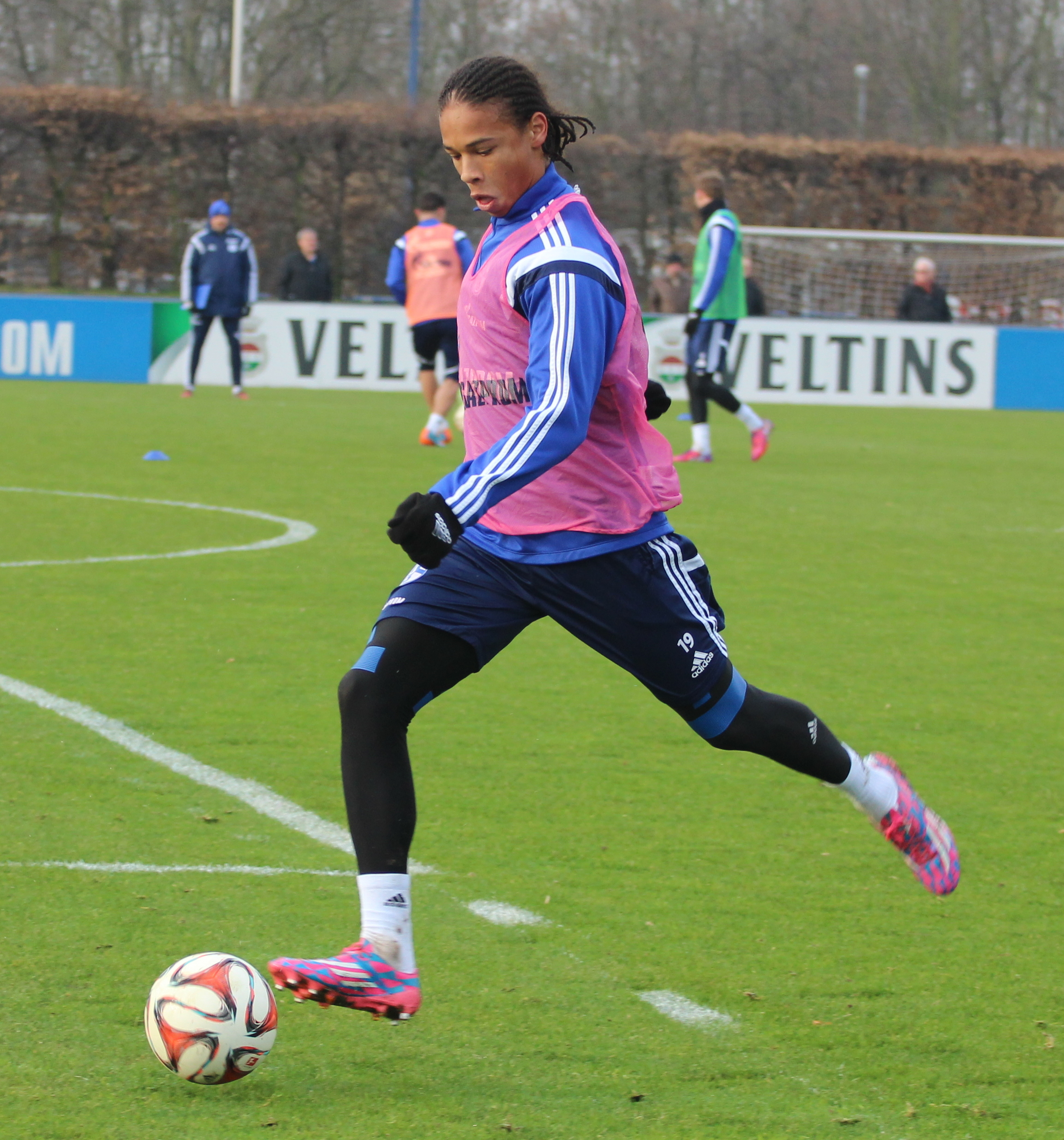 Leroy Sane in training with FC Schalke 04